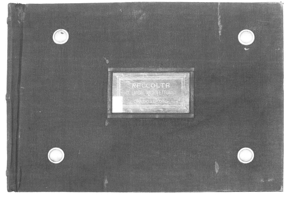 Album containing drawings by architect Orazio Lerario, collected by his son Virgilio Lerario and donated to Italian library A.B.M.C. (located in piazza Zanardelli, Altamura, Italy)